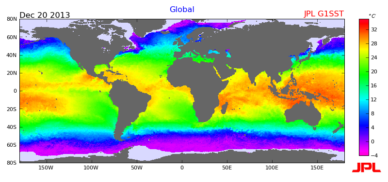 A daily, global Sea Surface Temperature (SST) data set is produced at 1-km (also known as ultra-high resolution) by the JPL ROMS (Regional Ocean Modeling System) group.